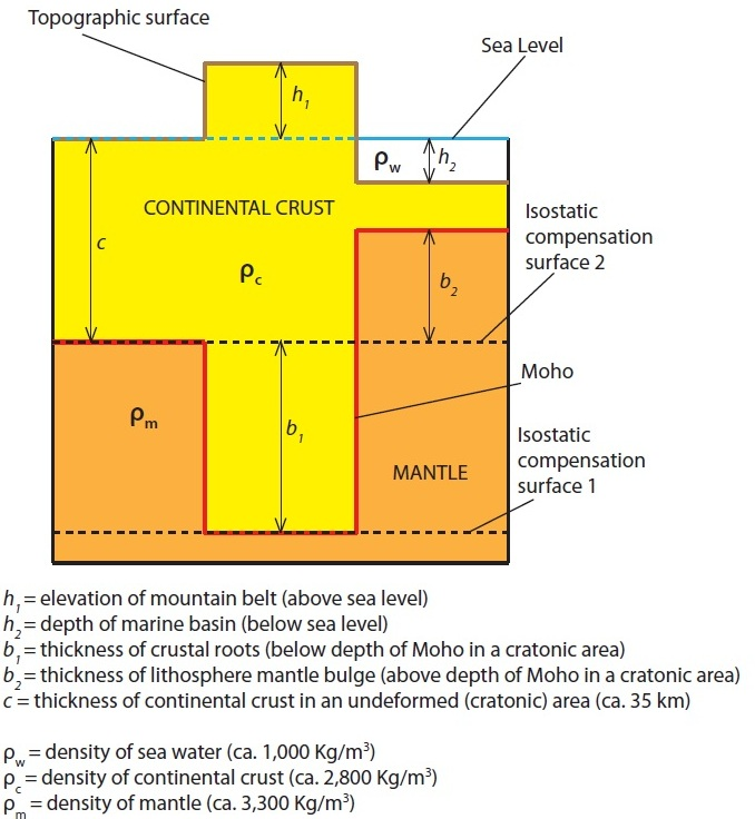 Airy models of isostatic compensation. See text for explanation.